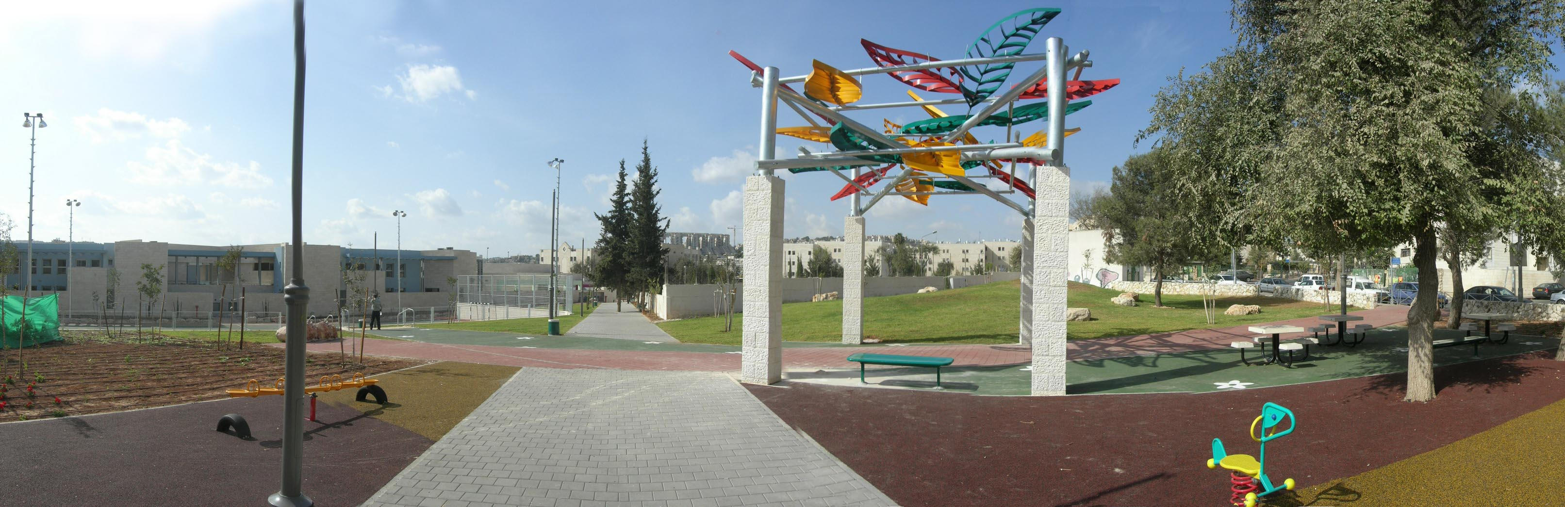 Pat neighbourhood, Jerusalem, Israel - Goren-Goldstein Park (aka Goldstein Garden) and the Hebrew-Arabic School (aka Yad be-Yad Max Rein Bilingual School)